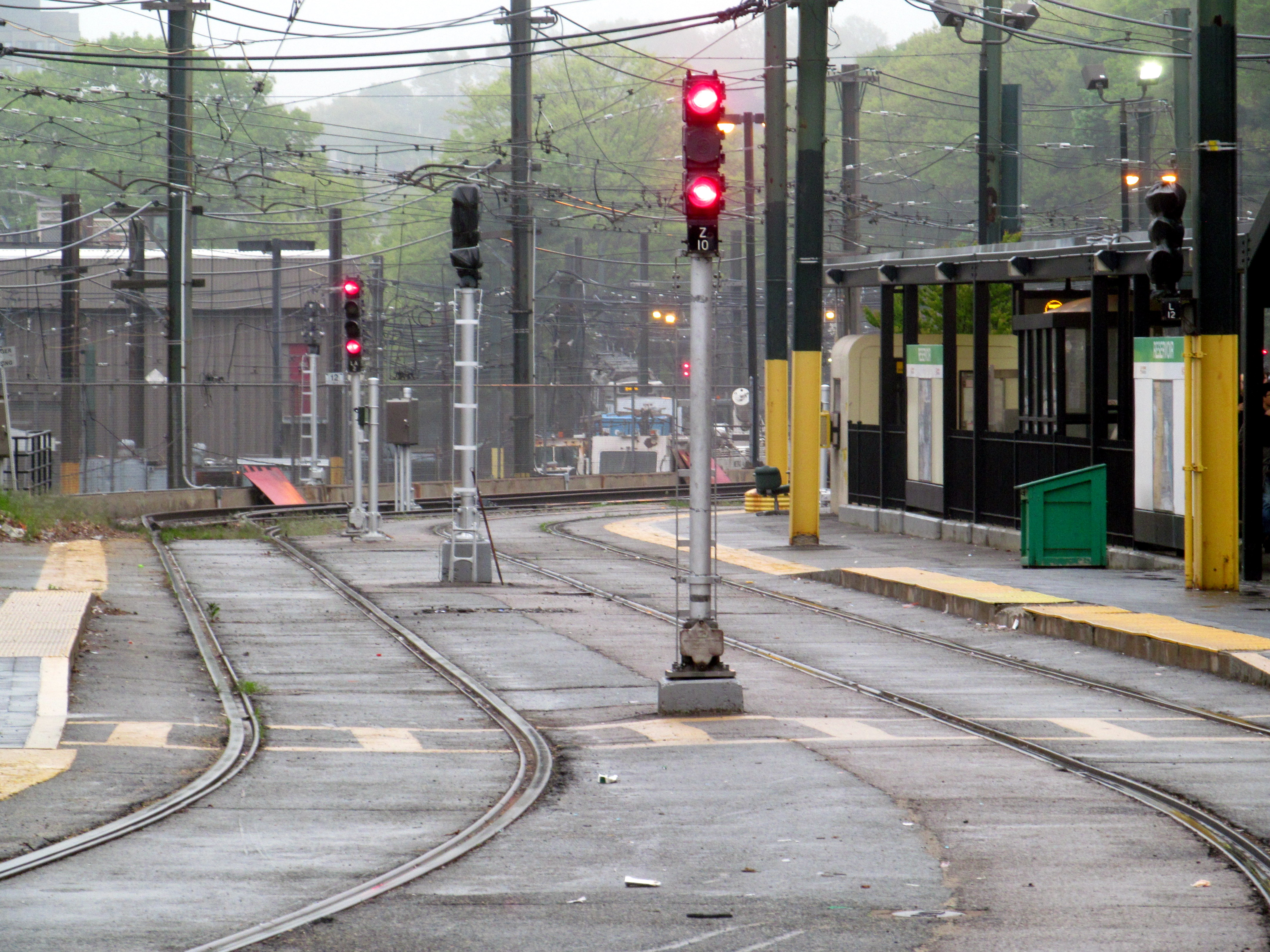 The platforms on the spur line at Reservoir station, used for trains that are short-turning or going in/out of service. The tracks here run to Chestnut Hill Avenue, connecting to the Beacon Street line at Cleveland Circle.